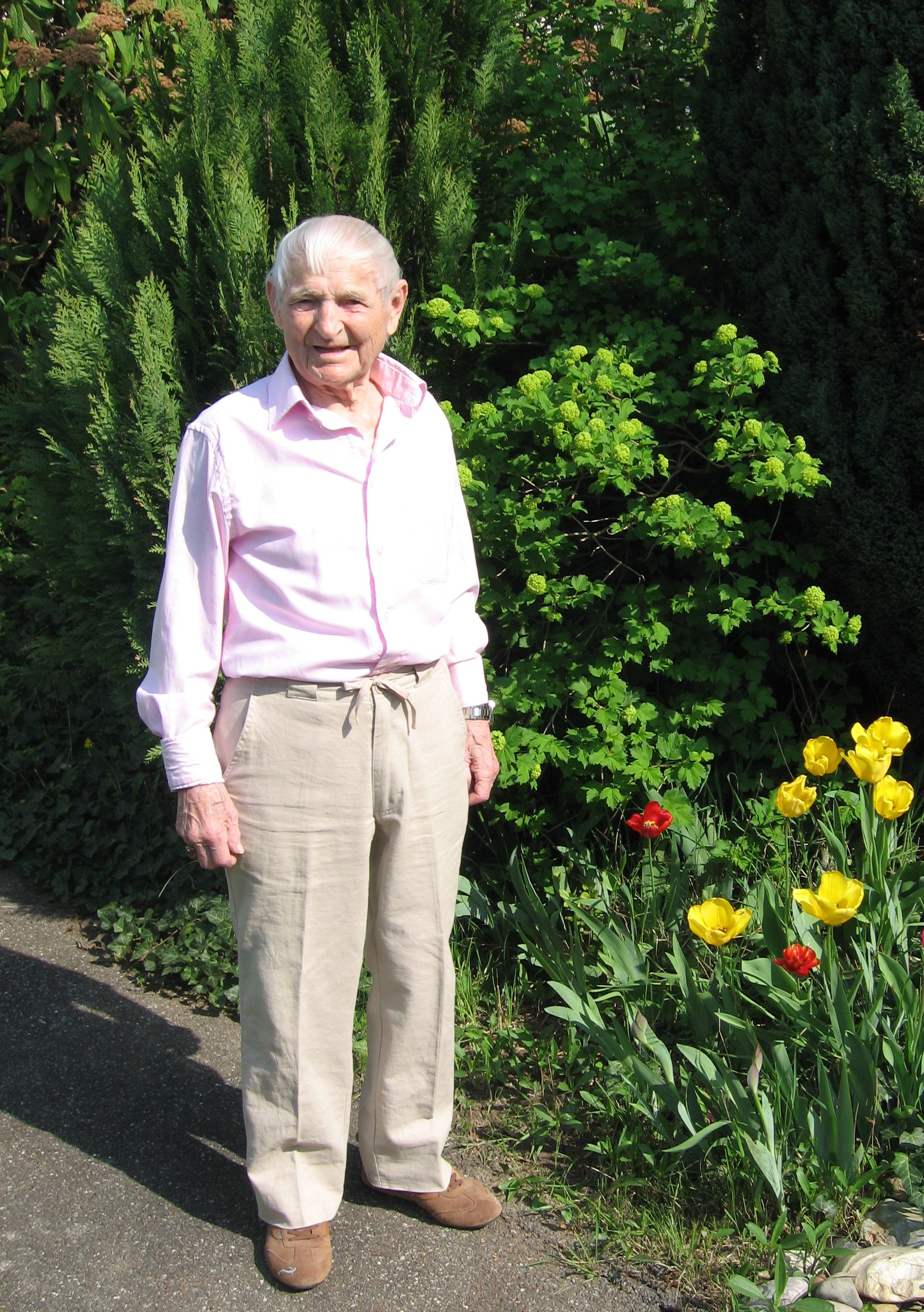 Rudolf BRAZDA - April 15th 2009